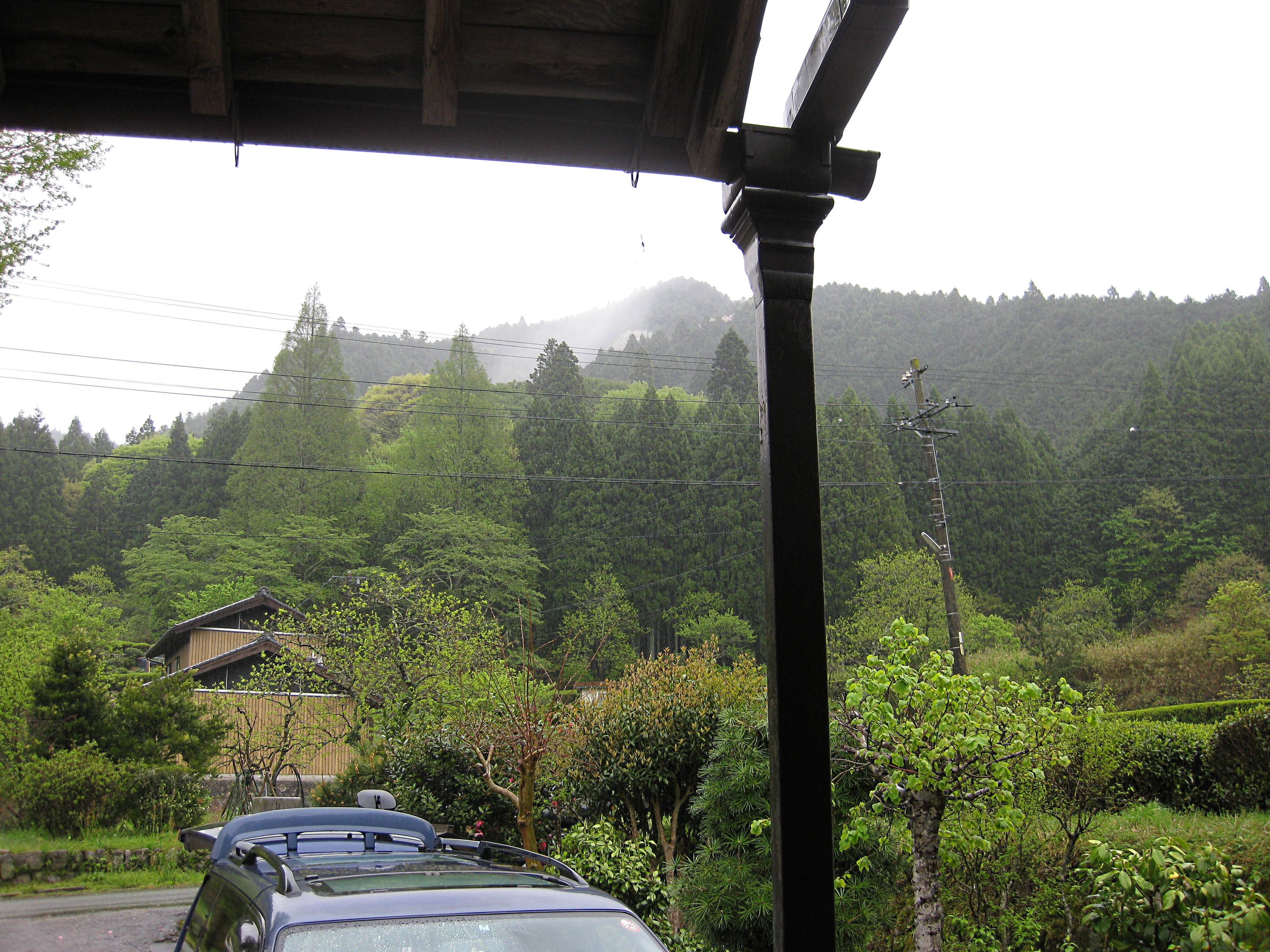 Shimonogawa Fudonoguchi, Tsu, Mie, Japan.